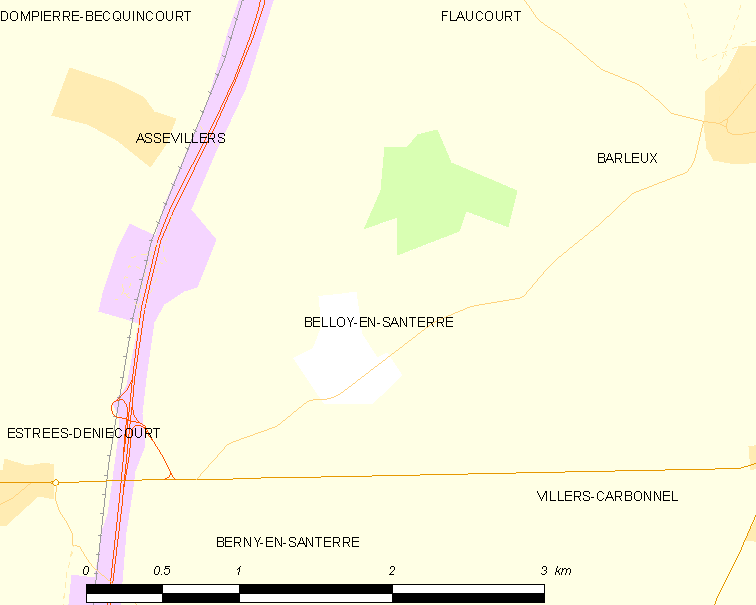 Map of French municipality Belloy-en-Santerre